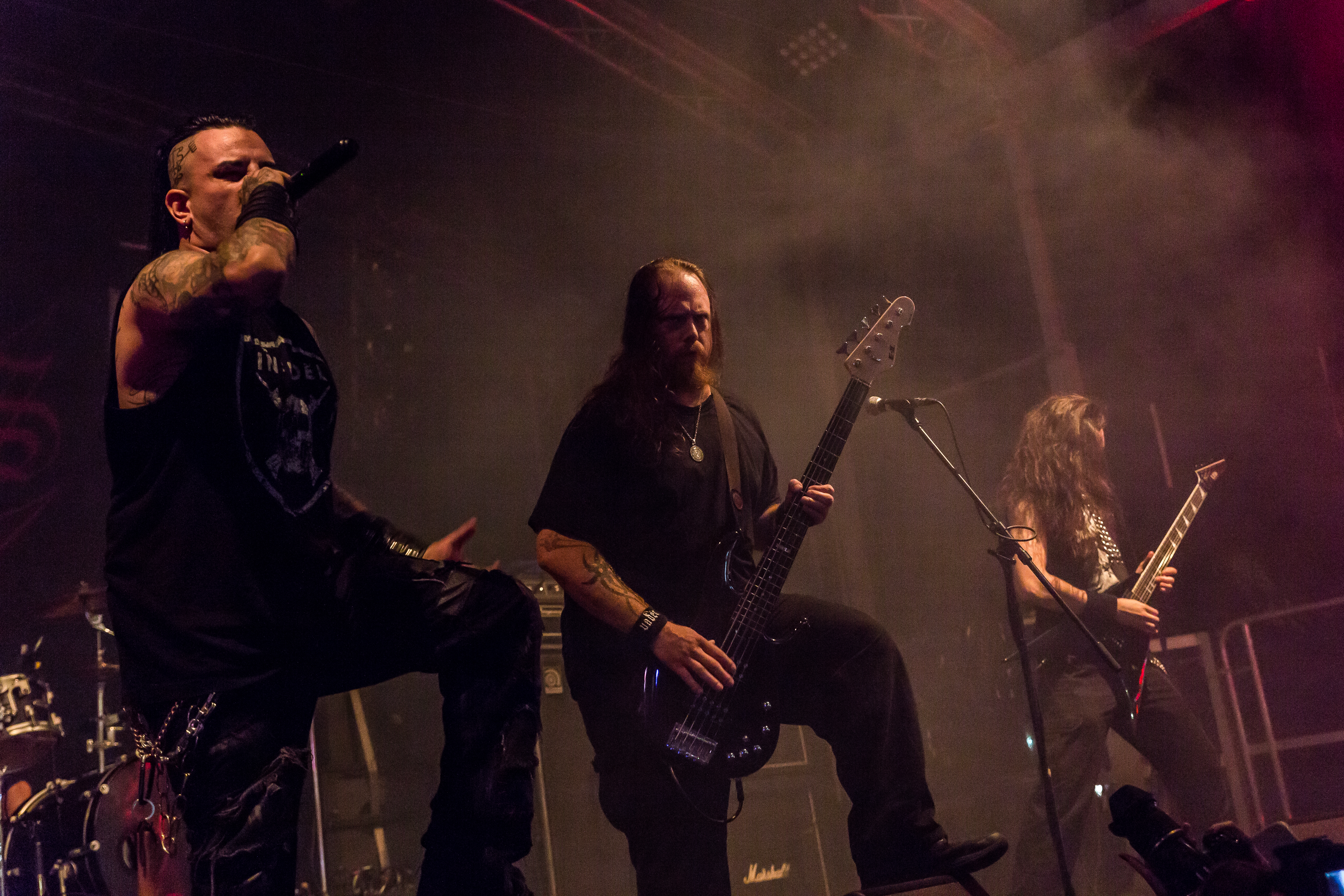 The American death metal band Vital Remains at the Summer Breeze Open Air 2017 in Dinkelsbühl/Germany.